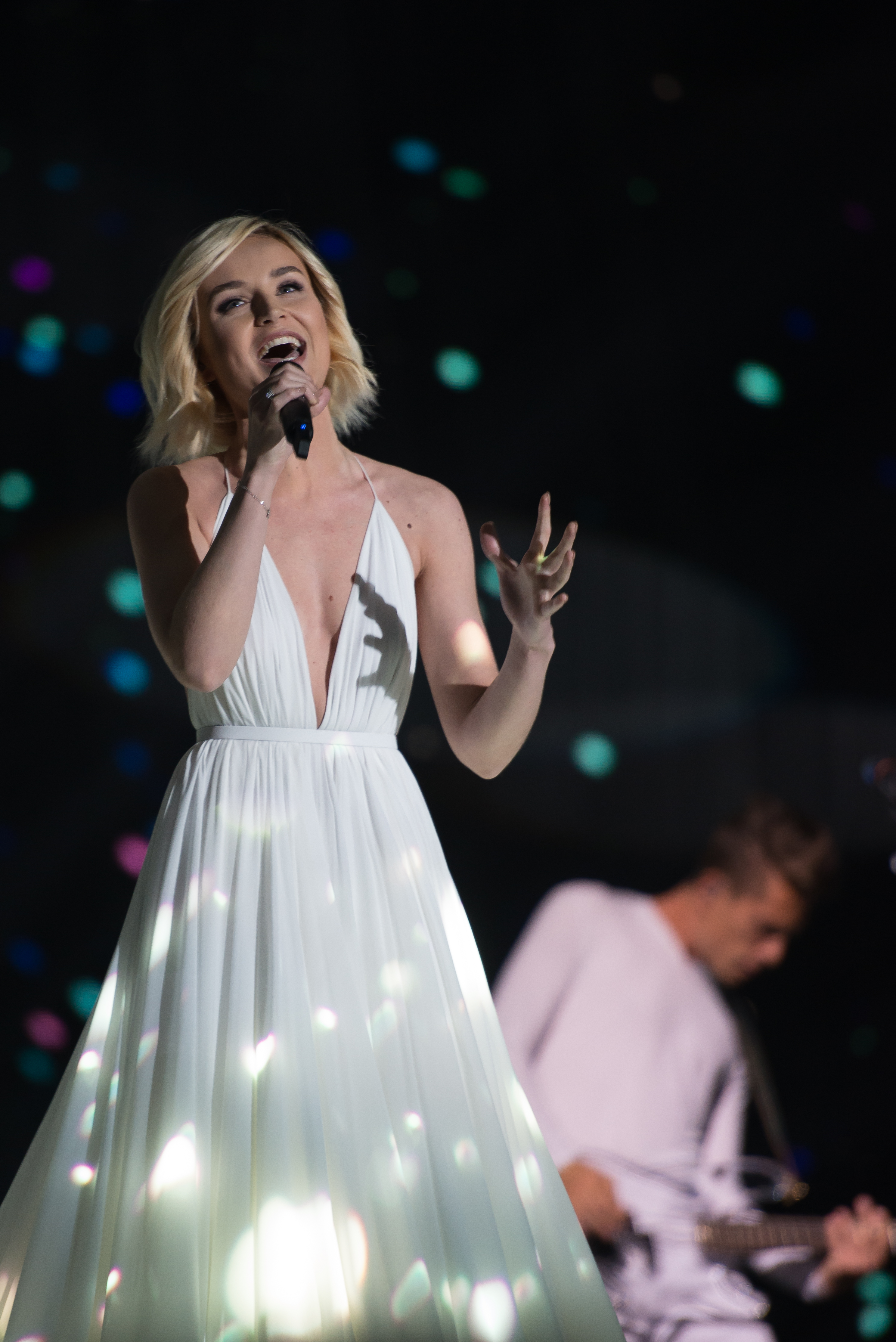 Eurovision Song Contest Vienna 2015: Polina Gagarina